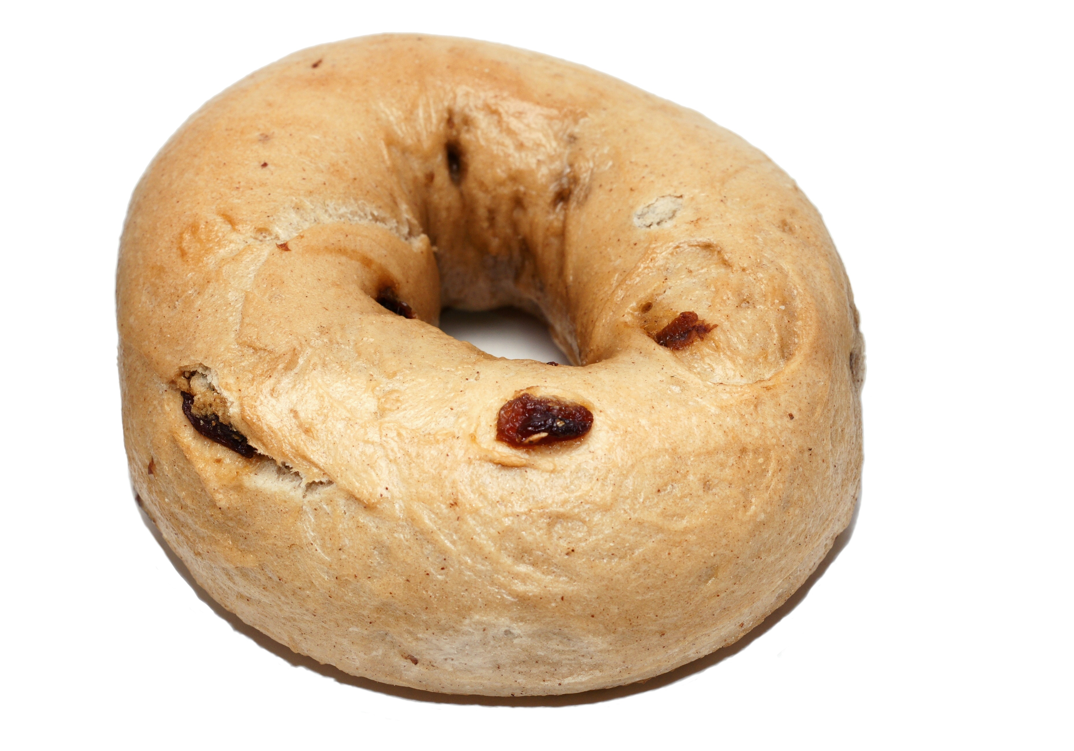 A bagel with raisin and cinnamon